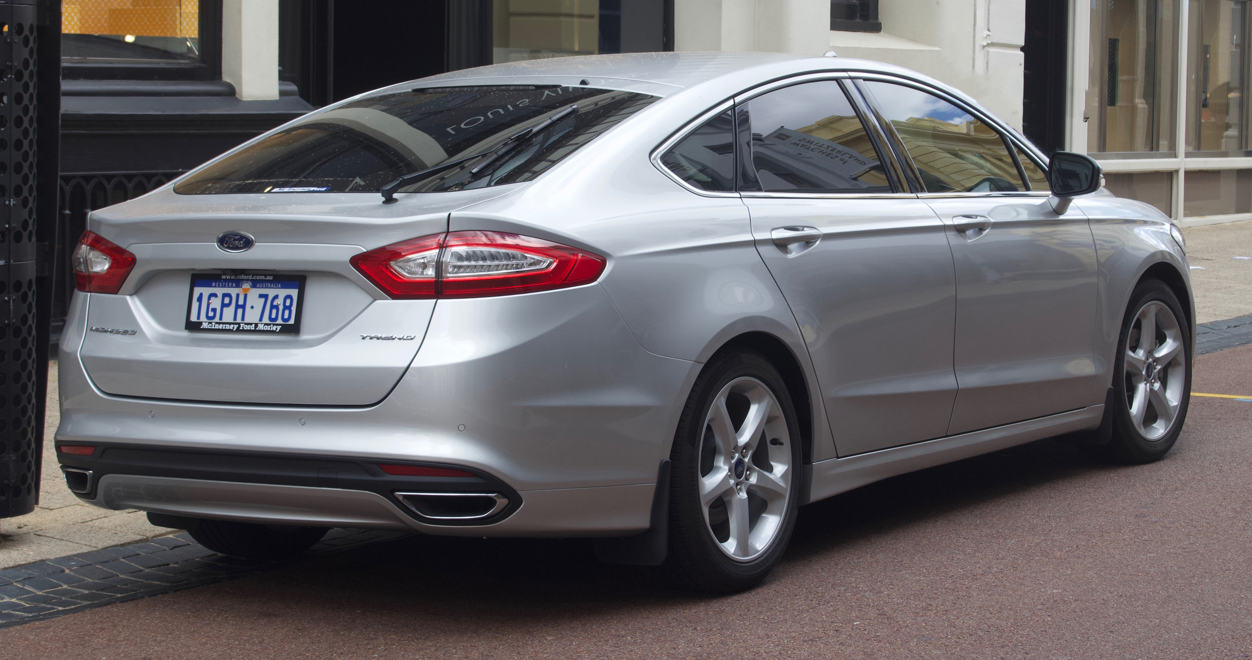 2018 Ford Mondeo (MD) Trend liftback. Photographed in Perth, Western Australia, Australia.